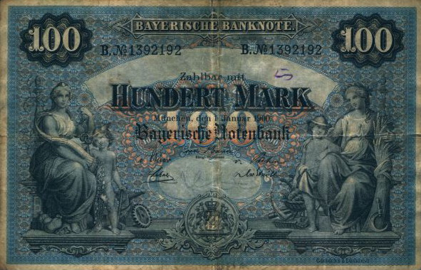 Banknotes from Bavarian central bank 1900, a note dated 1875 exists